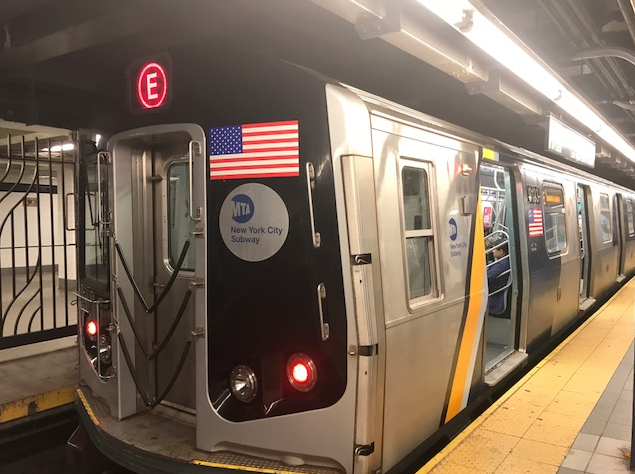 The Metropolitan Transportation Authority announced on Oct. 3, 2017 that the first cars refurbished and reconfigured as part of Chairman Joseph Lhota’s Subway Action Plan are now in service on the E line. The R-160 cars are part of a 100-car pilot designed to increase the capacity and enhance the performance reliability of the subway car fleet. The cars feature: • New braking and acceleration controllers for better reliability • Space for 80-100 additional passengers via limited seat removal • Improved stanchions and hand rails to enhance customer comfort and safety. • Display LCD screens in all cars to provide customers with better information • LED lighting to improve lighting and reduce energy consumption • Interior and exterior wrapping of the cars for customers to identify Pilot Trains, as well as a car exterior indicators to identify the cars that have the modified seating arrangement